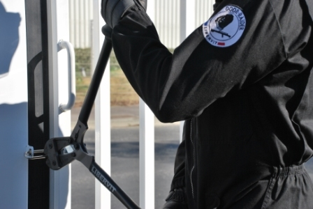 tactical bolt cutter